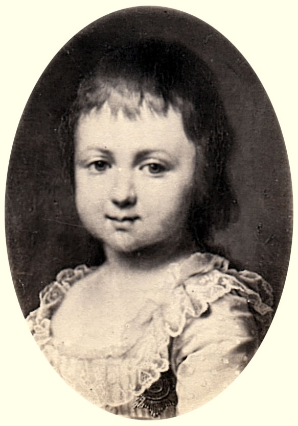 Olga Pavlovna